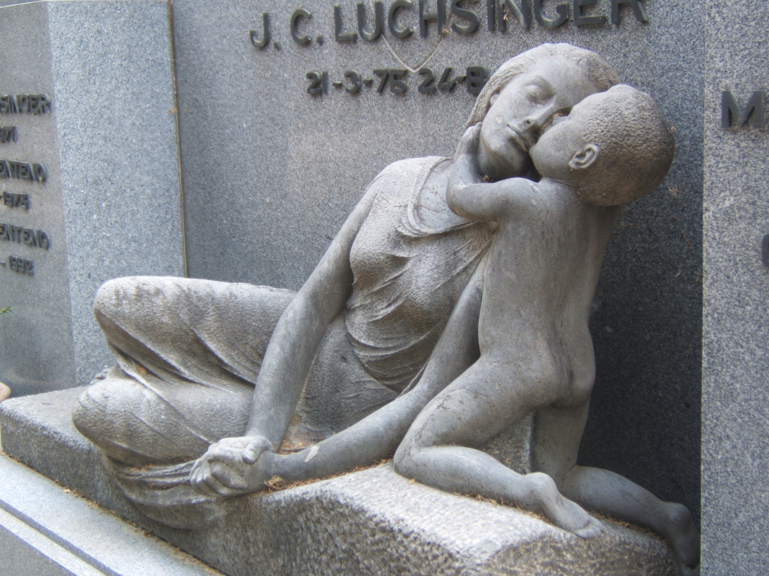 Works by Emiliano Barral (1896-1936) in the Civil cemetery in Madrid; ca. 1935